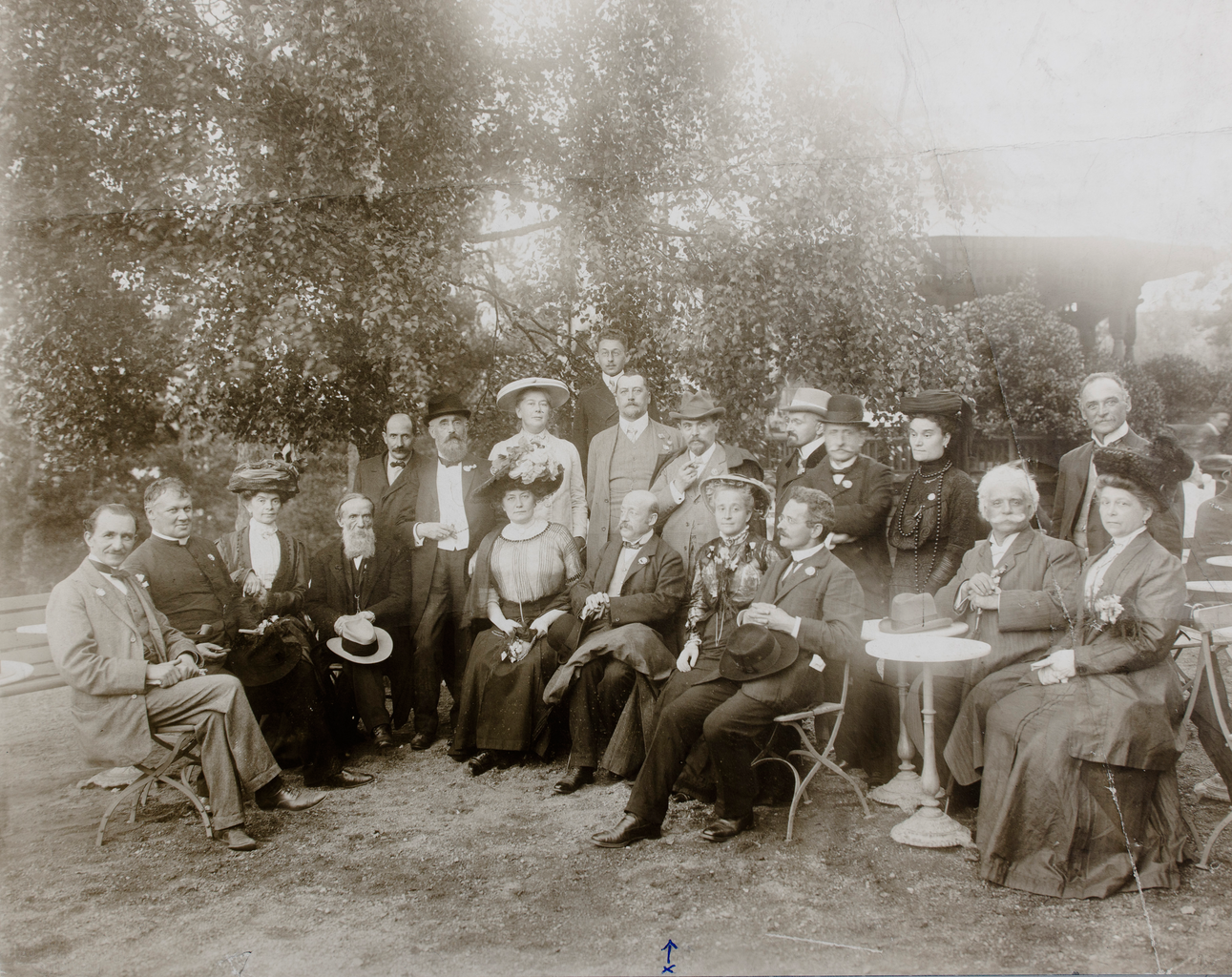 The Universal Peace Congresses were international meetings to promote peace that took place in different European capitals in the late 19th and early 20th centuries. The congresses established liberal pacifism as a distinct system of thought in European politics and a serious force in international relations for several decades. Religious peace groups, labor organizations, government officials, authors, and other notables attended these congresses, whose attendance grew until World War I, when they were discontinued because of conflicting loyalties among the delegates. The first notable peace congress was held in London in 1843. The first officially titled Universal Peace Congress took place in Paris in 1889. At the third congress in Rome in 1891, Danish peace activist and parliamentarian Fredrik Bajer (1837–1922) established the Permanent International Peace Bureau (PIPB), a centralized organization of peace groups that advocated for disarmament, international courts of justice, and mandatory arbitration of disputes between states. The PIPB was awarded the Nobel Peace Prize in 1910. Pictured here is a group of attendees to the Eighteenth Universal Peace Congress in Stockholm, Sweden, on August 1, 1910. Their identities are unknown. The photograph is preserved in the archives of the League of Nations in Geneva. The archives were inscribed on the UNESCO Memory of the World register in 2010. Group portraits; Memory of the World; Pacifism; Peace; Portrait photographs; Universal Peace Congress